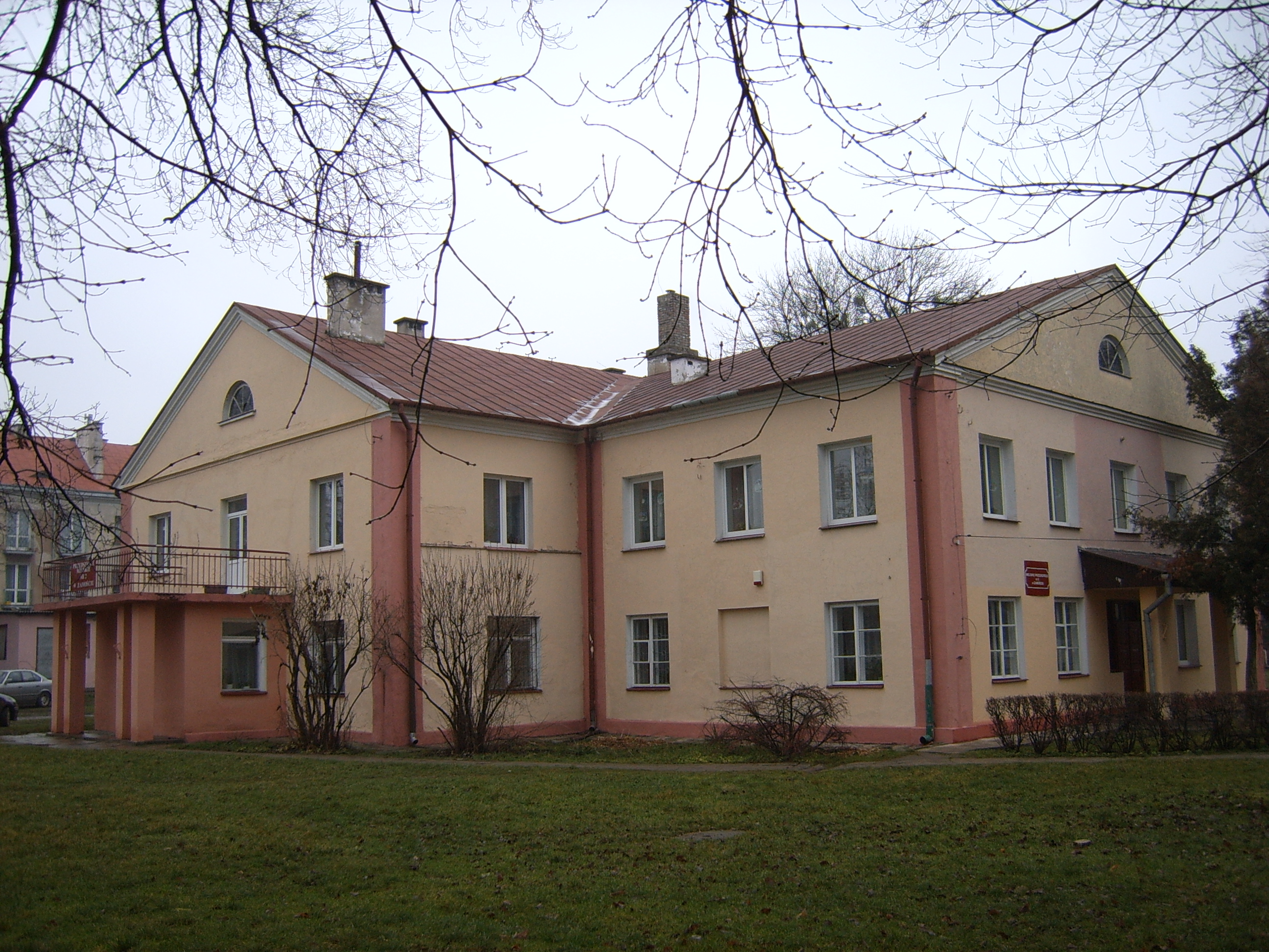 Former synagogue in Zamość, Nowe Miasto; nawadays kindergarten